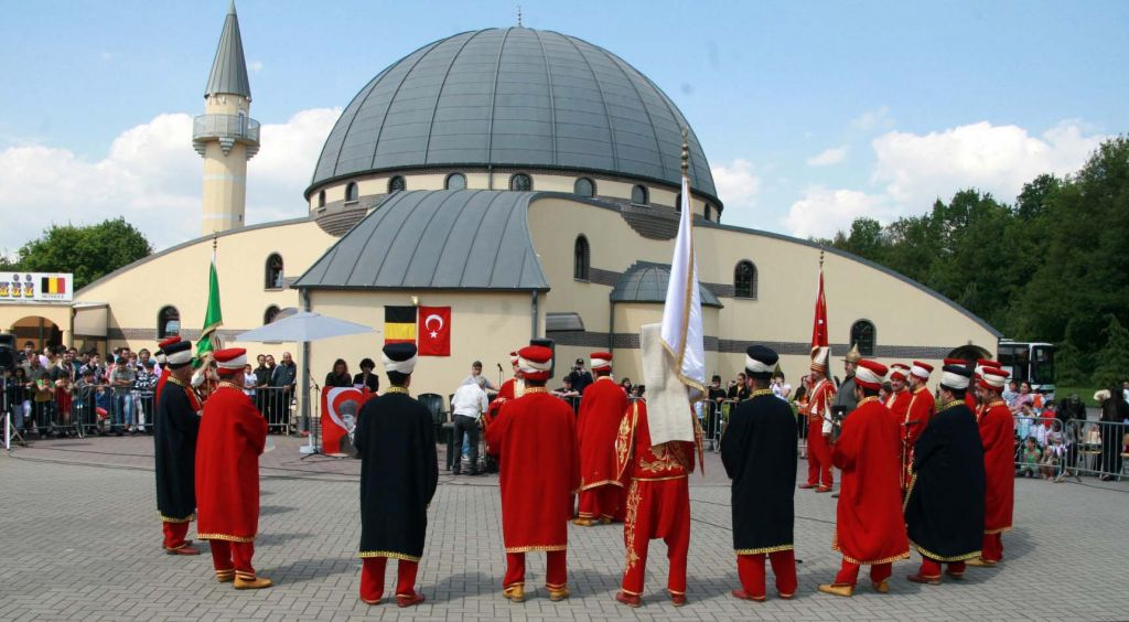 'Turkish day' outside the 'Yunus Emre Camii' (mosque) in Genk, Belgium.